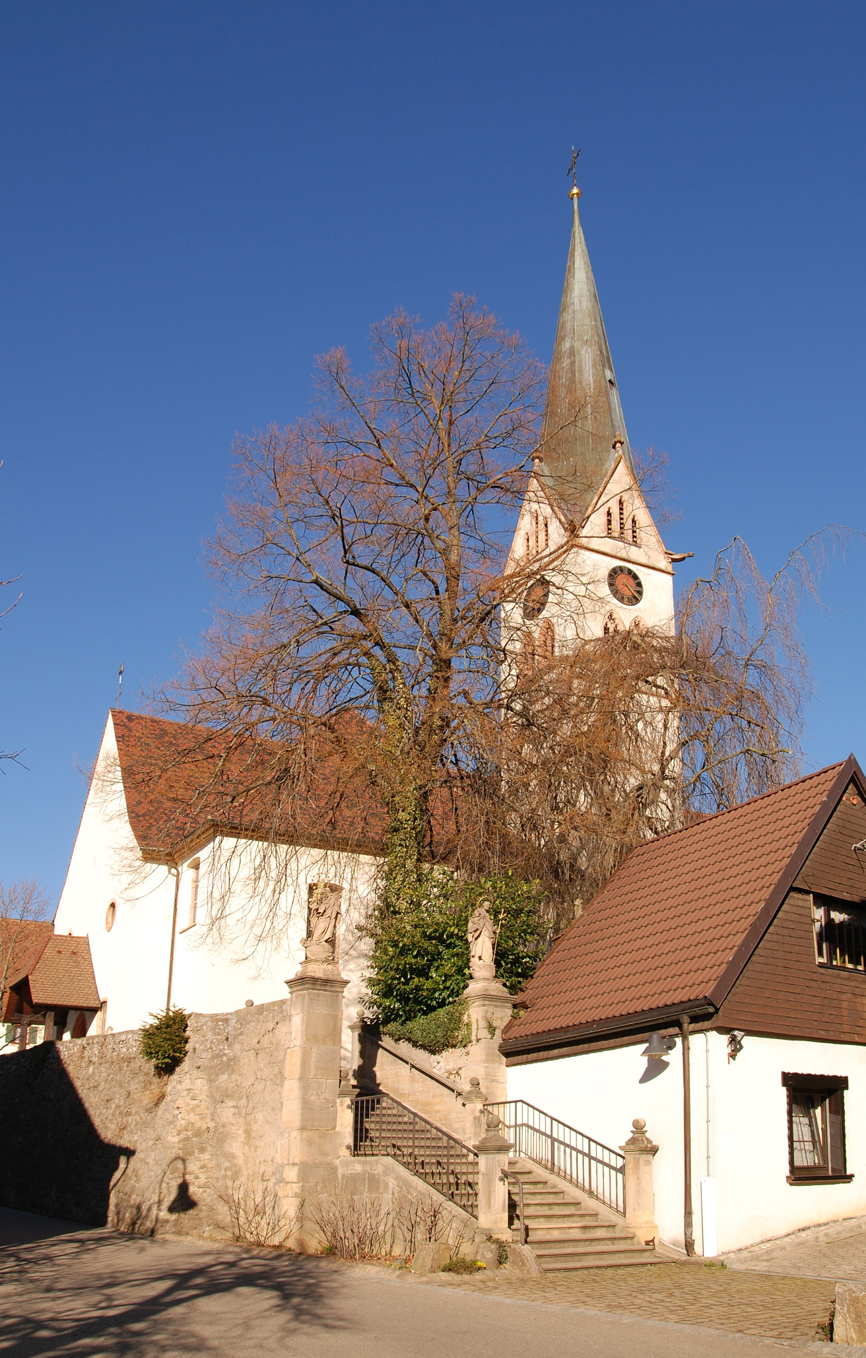 Ebringen: Catholic Church Saint Gallus